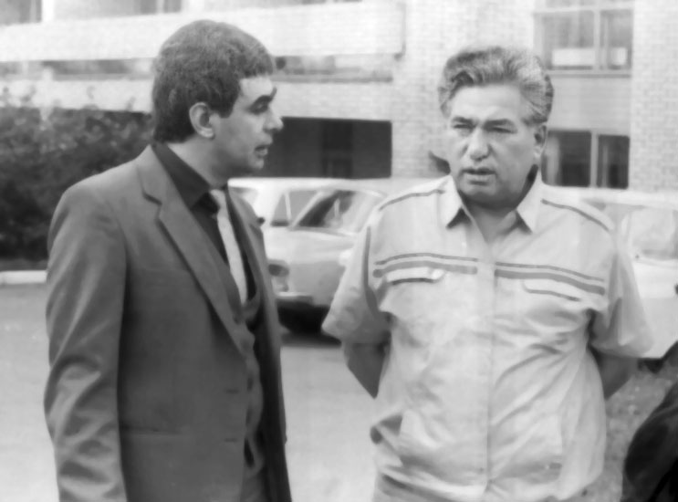 with Zhinkeez Itmatov